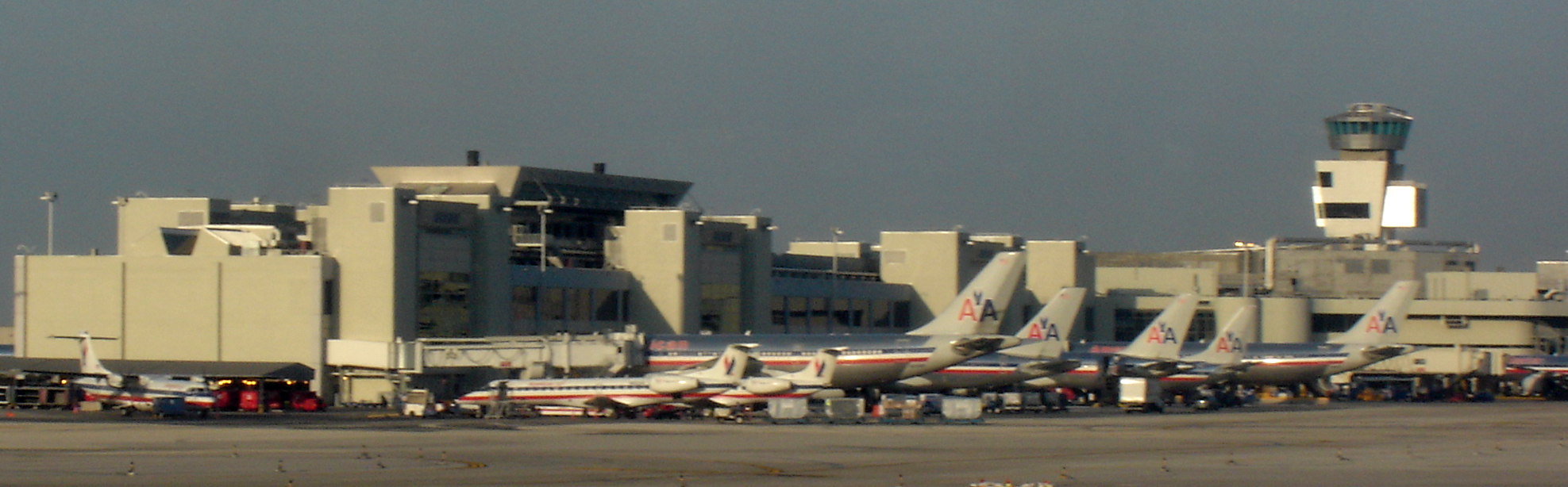 Concourse D, Miami International Airport. Terminal used by American Airlines